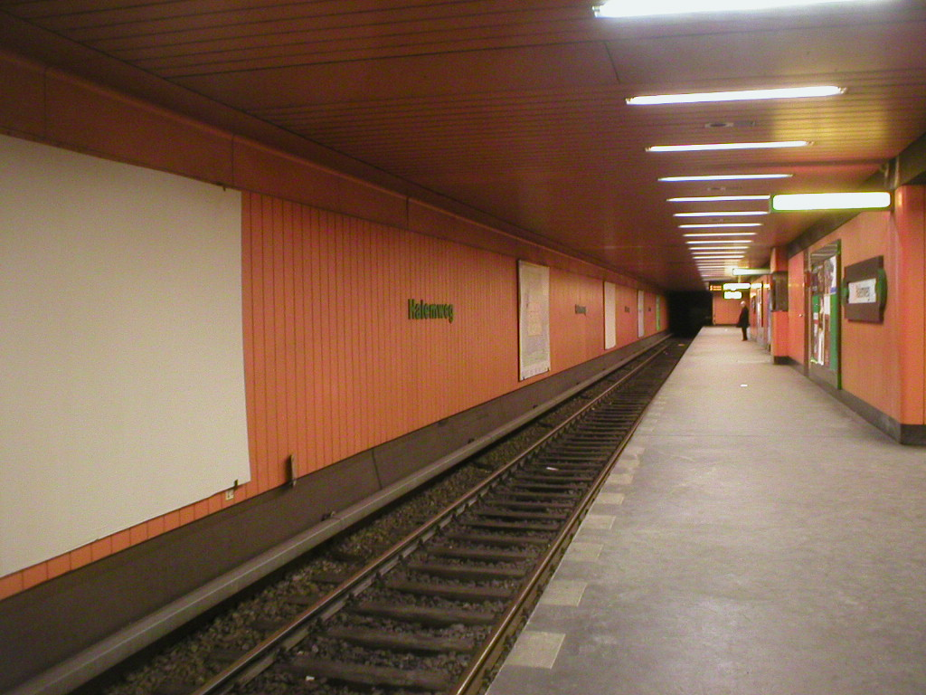 Berliun U-Bahn station Halemweg, line U7